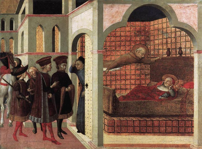 Saint Augustine Sassetta Tempera and gold on panel, 44.7 x 37.3 cm Private collection